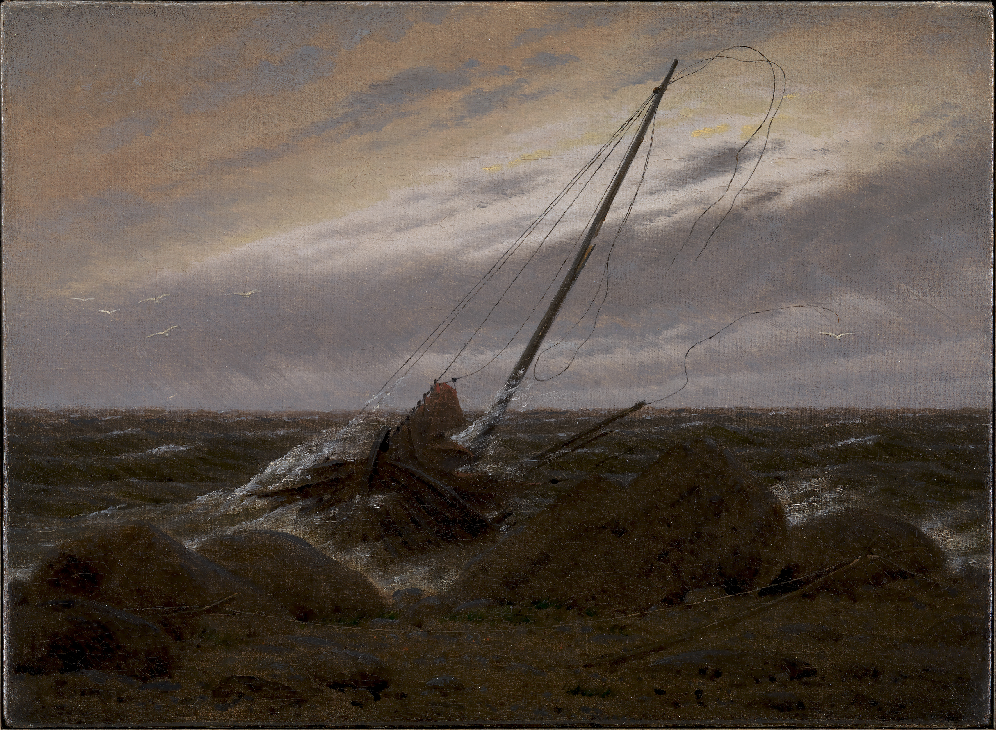 Painting by Caspar David Friedrich (1774-1840), oil on canvas, 22.2 x 30.8 cm, dated 1817, inventory number KMS8817, SMK - Statens Museum for Kunst, Copenhagen